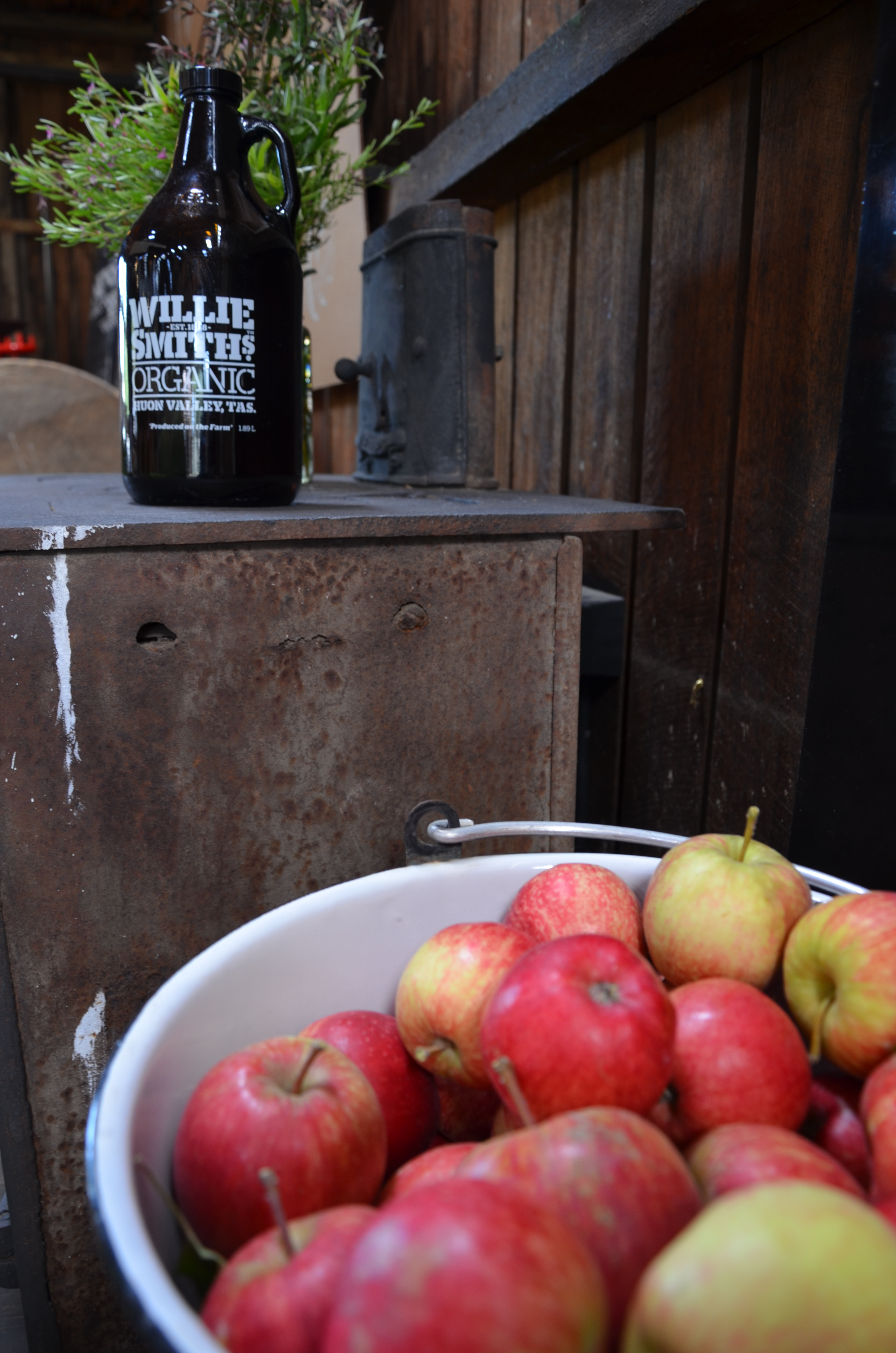 Apple cider in Tasmania, the "Apple Isle"